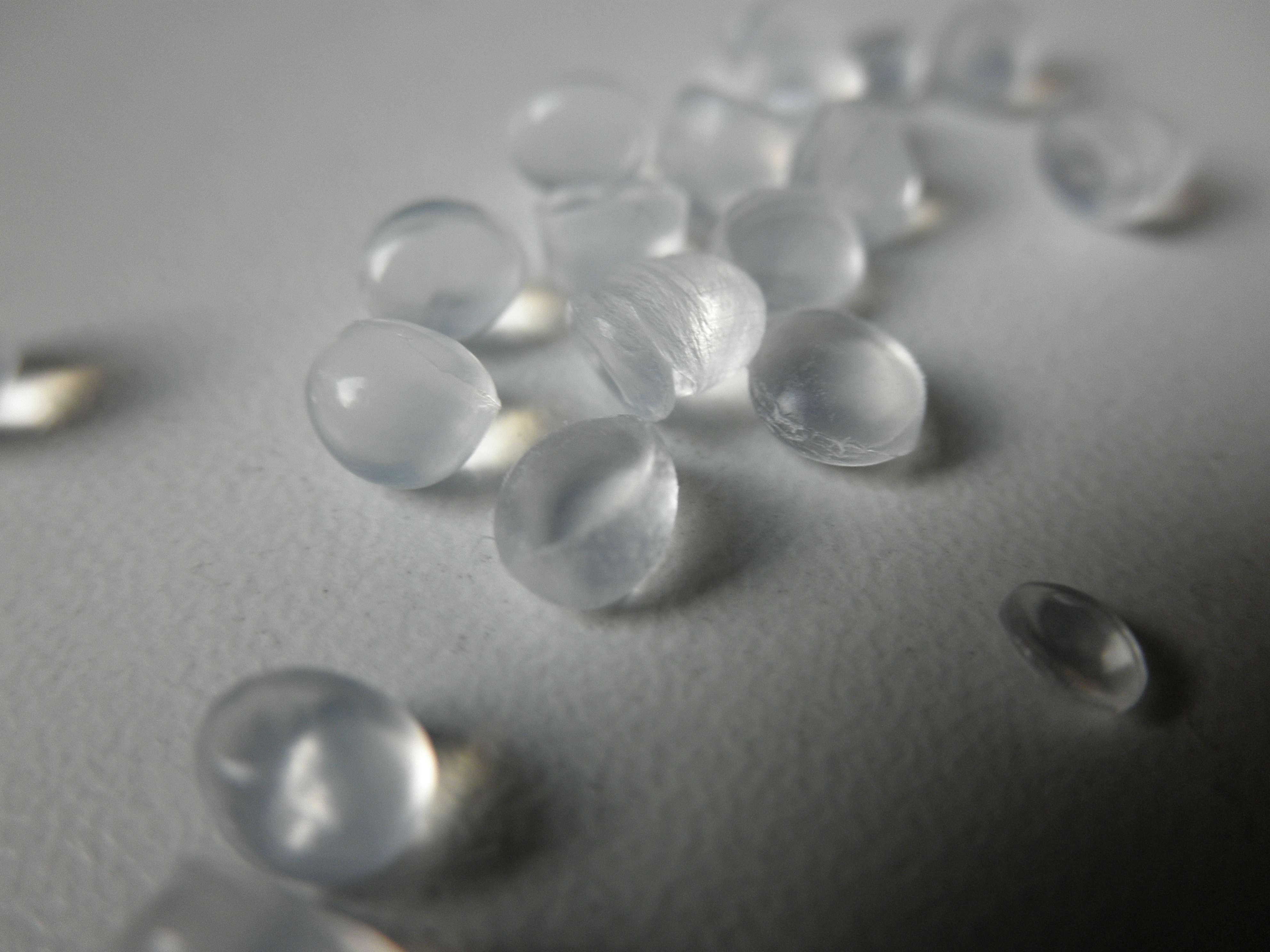 Polyethylene balls.